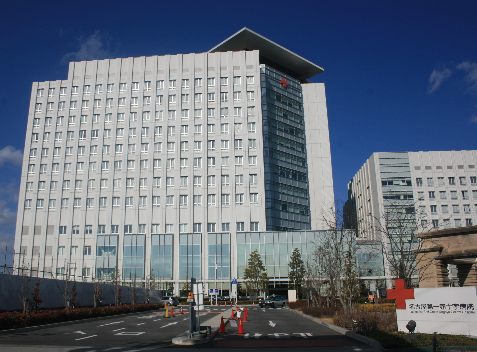 Japanese Red Cross Nagoya Daiichi Hospital, new west building and central entrance